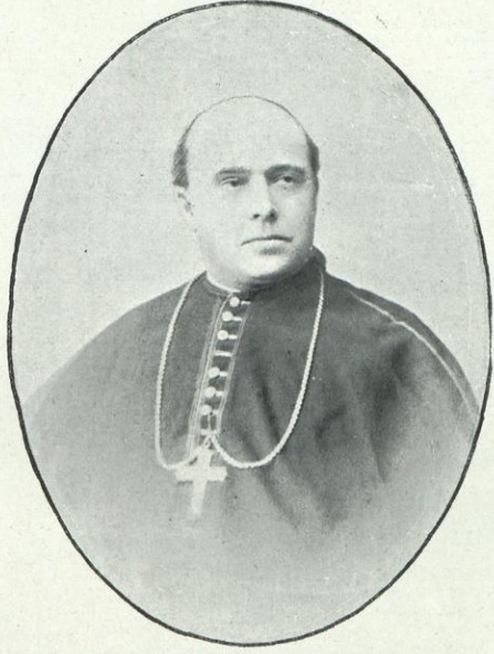 Tomás Cámara y Castro, bishop of Salamanca